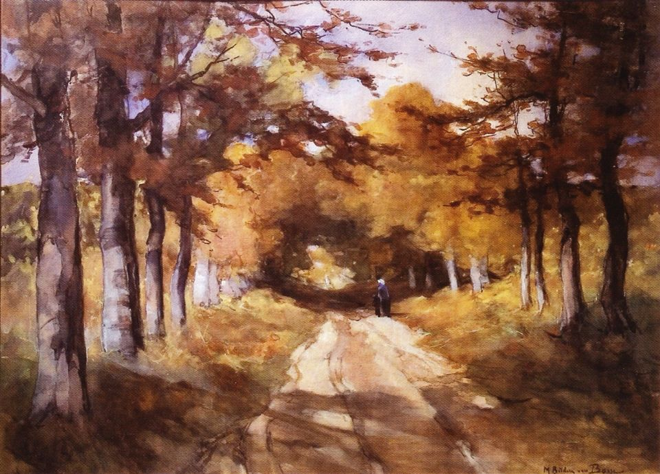 'Alley with trees and a small figure' by Marie van-Bosse watercolour-painting on paper, 60 x 85 cm, c. 1880-1895